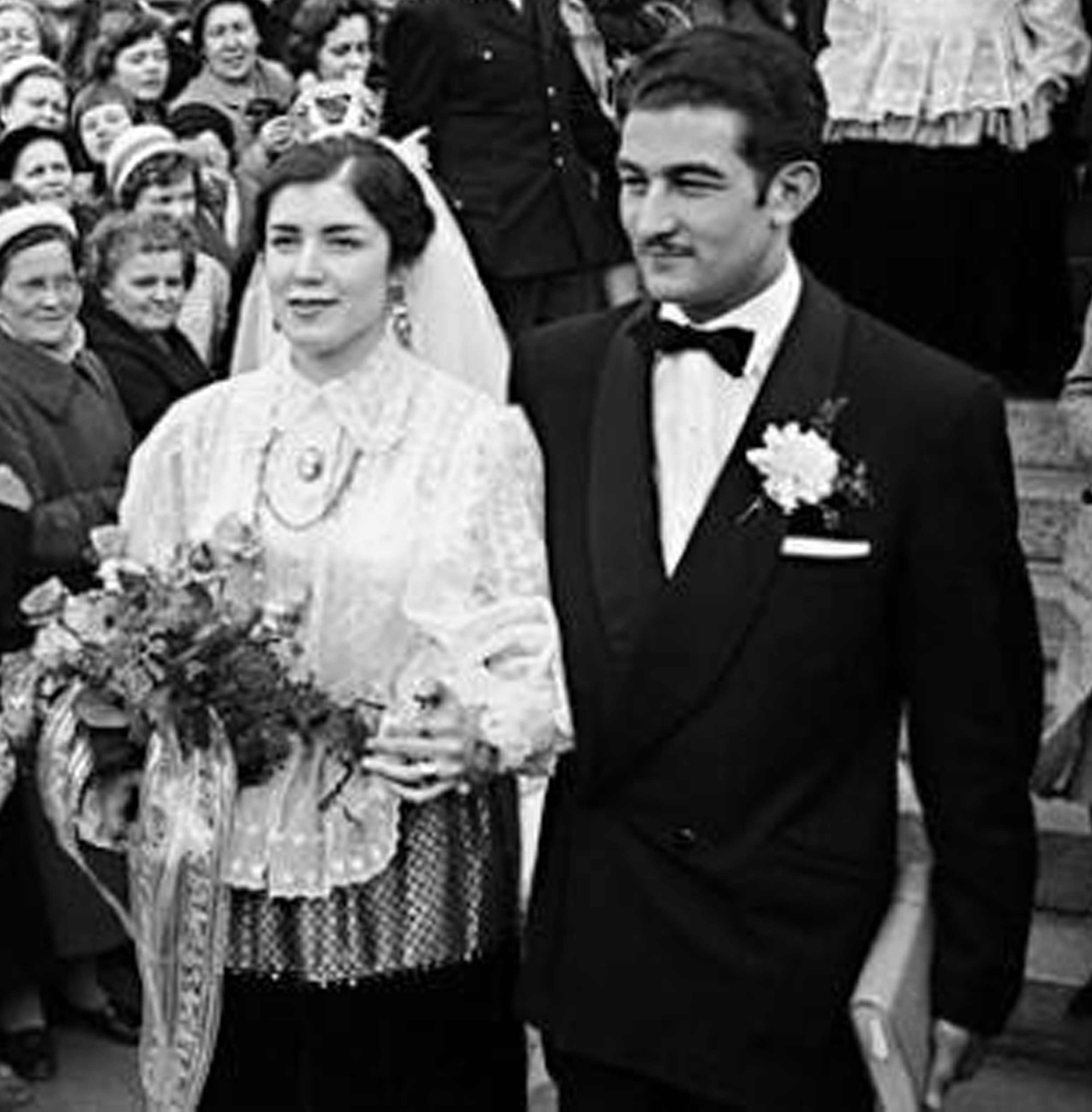 Allan Hagert and Tuula Saarto, at Helsinki Cathedral, 1959